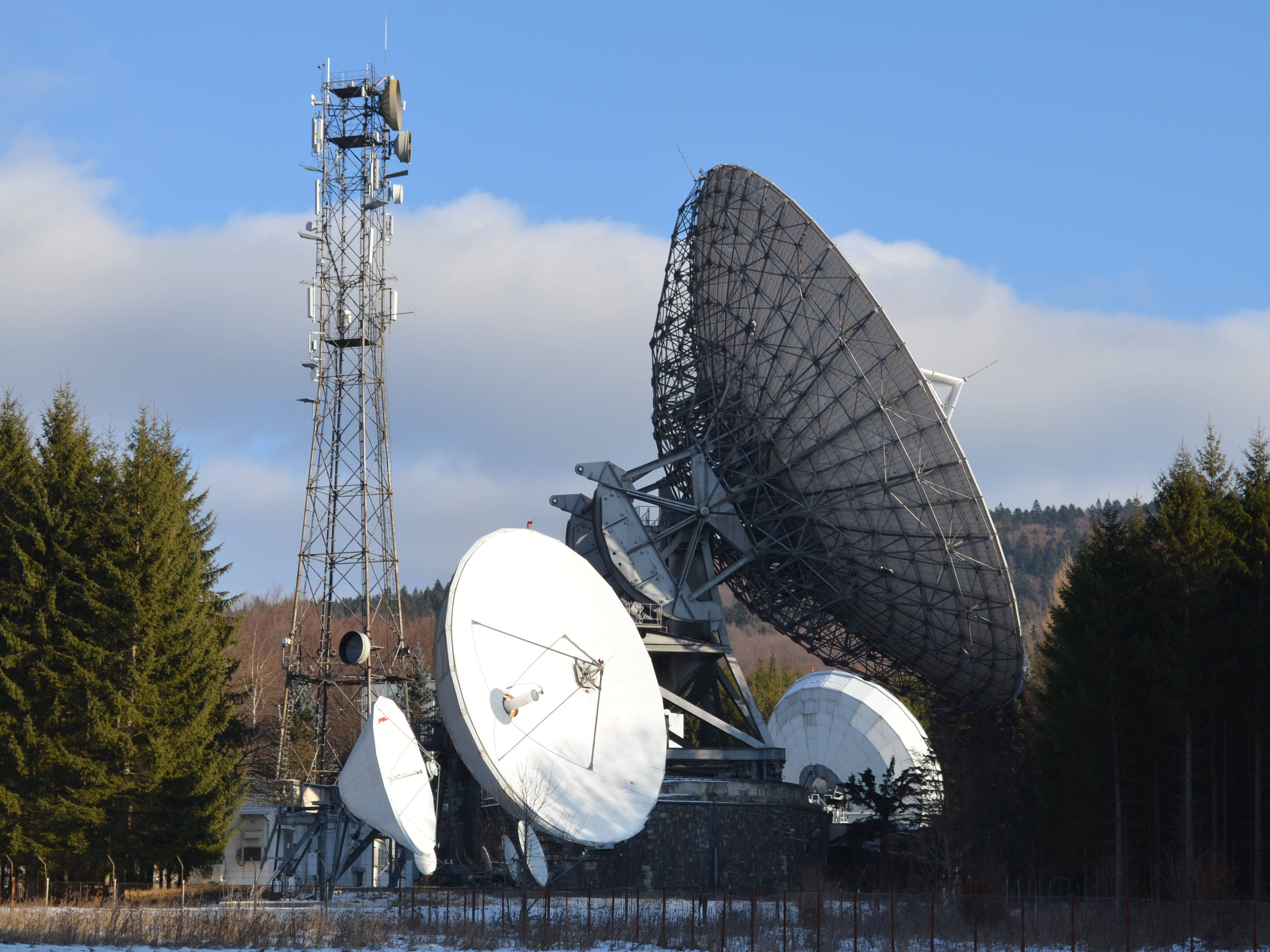 Satellite Communications Center of Radiocom (the National Company of Radio-communications), at Cheia, Prahova, RomaniaRomână: Centrul de comunicații prin satelit de la Cheia, aparținând Societății Naționale de Radiocomunicații (Radiocom)